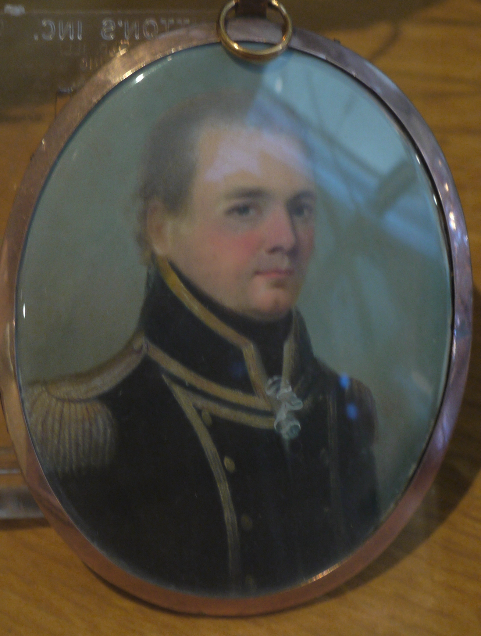 Photo of a Miniature thought to be of John Richards Lapenotière